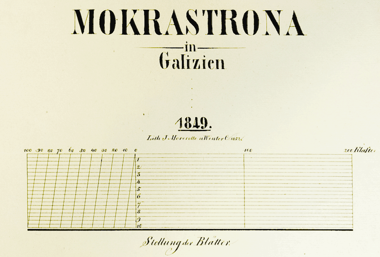 Transversal scale on map from 1852.